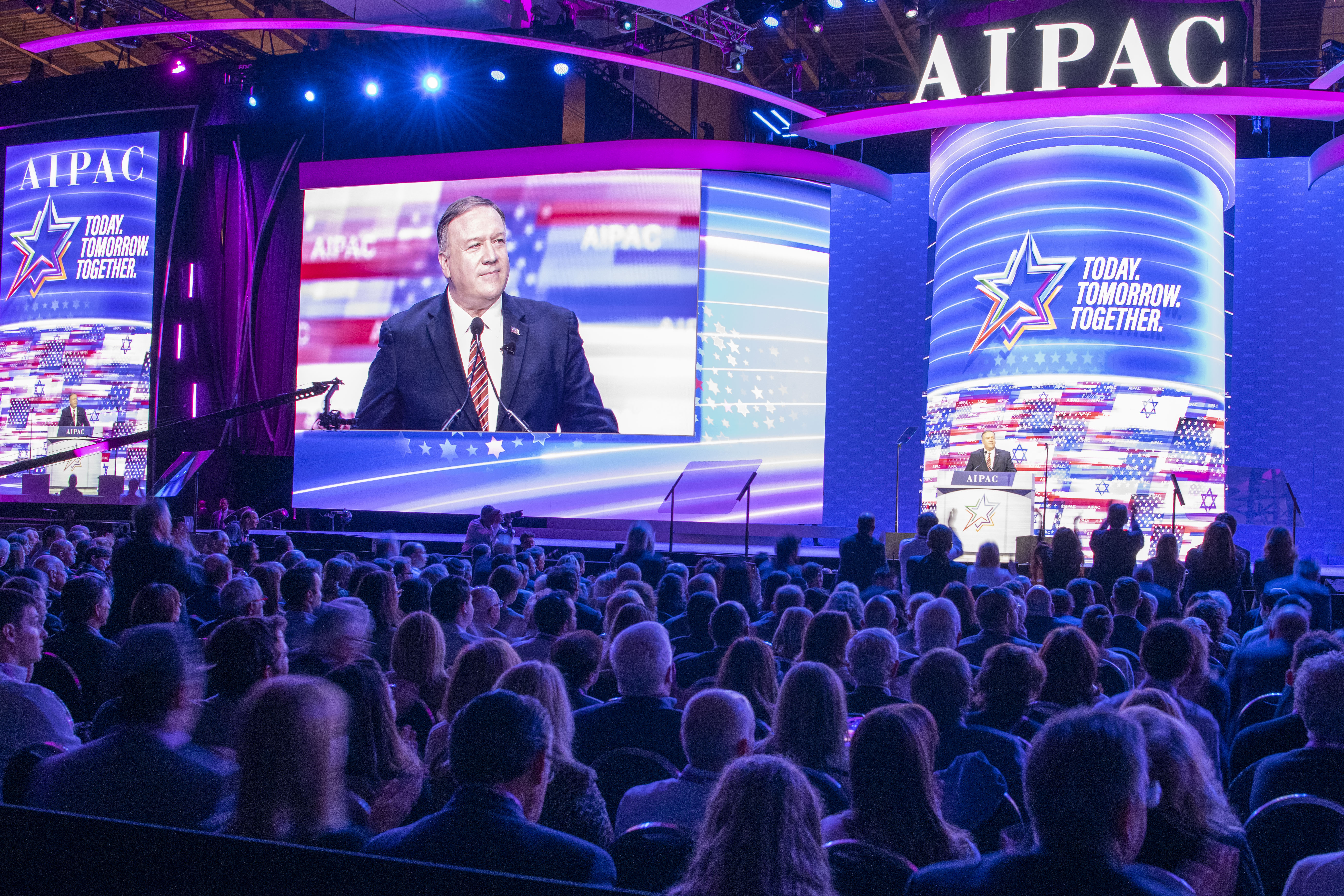 Secretary of State Michael R. Pompeo delivers a speech at the American Israel Public Affairs Committee Policy Conference, at the Walter Washington Convention Center, in Washington D.C., on March 2, 2020. [State Department photo by Freddie Everett/ Public Domain]